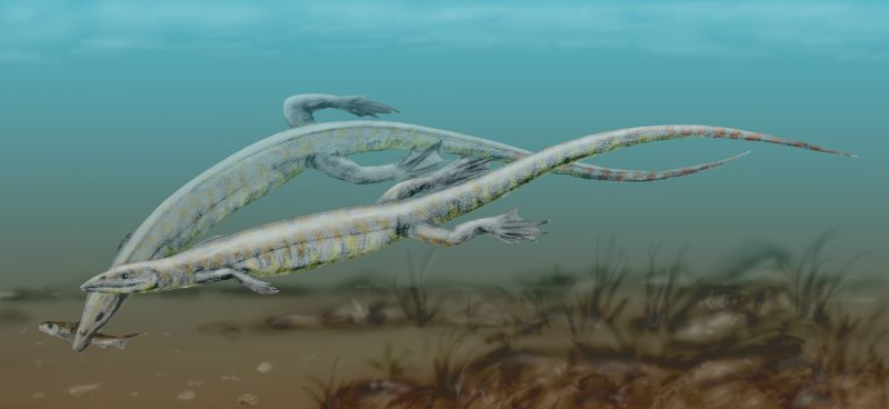 Pleurosaurus goldfussi, a sphenodontian from the late Jurassic of Germany and France. Digital.